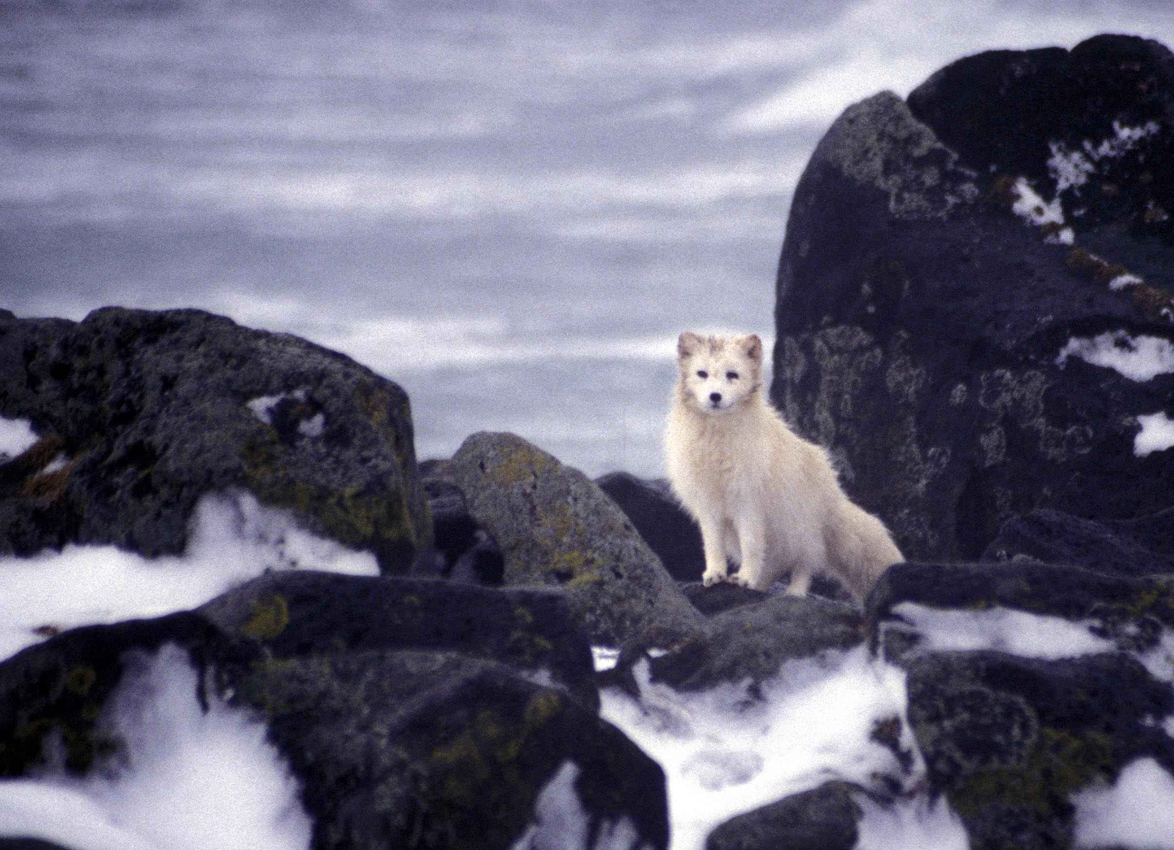 Image title: White arctic fox animal Image from Public domain images website